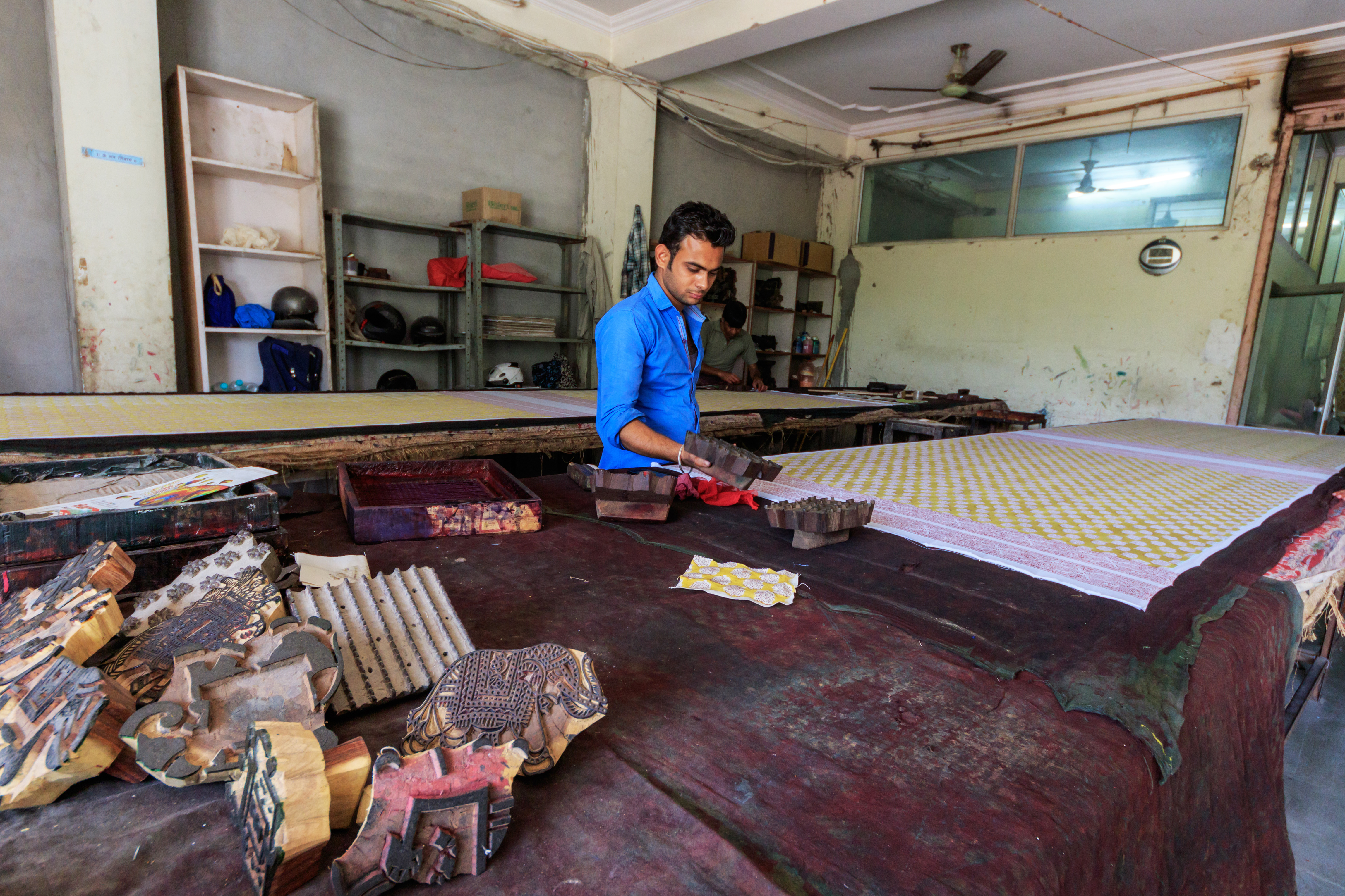 Interior of textile printing manufacture at Village Textil in Jaipur, India